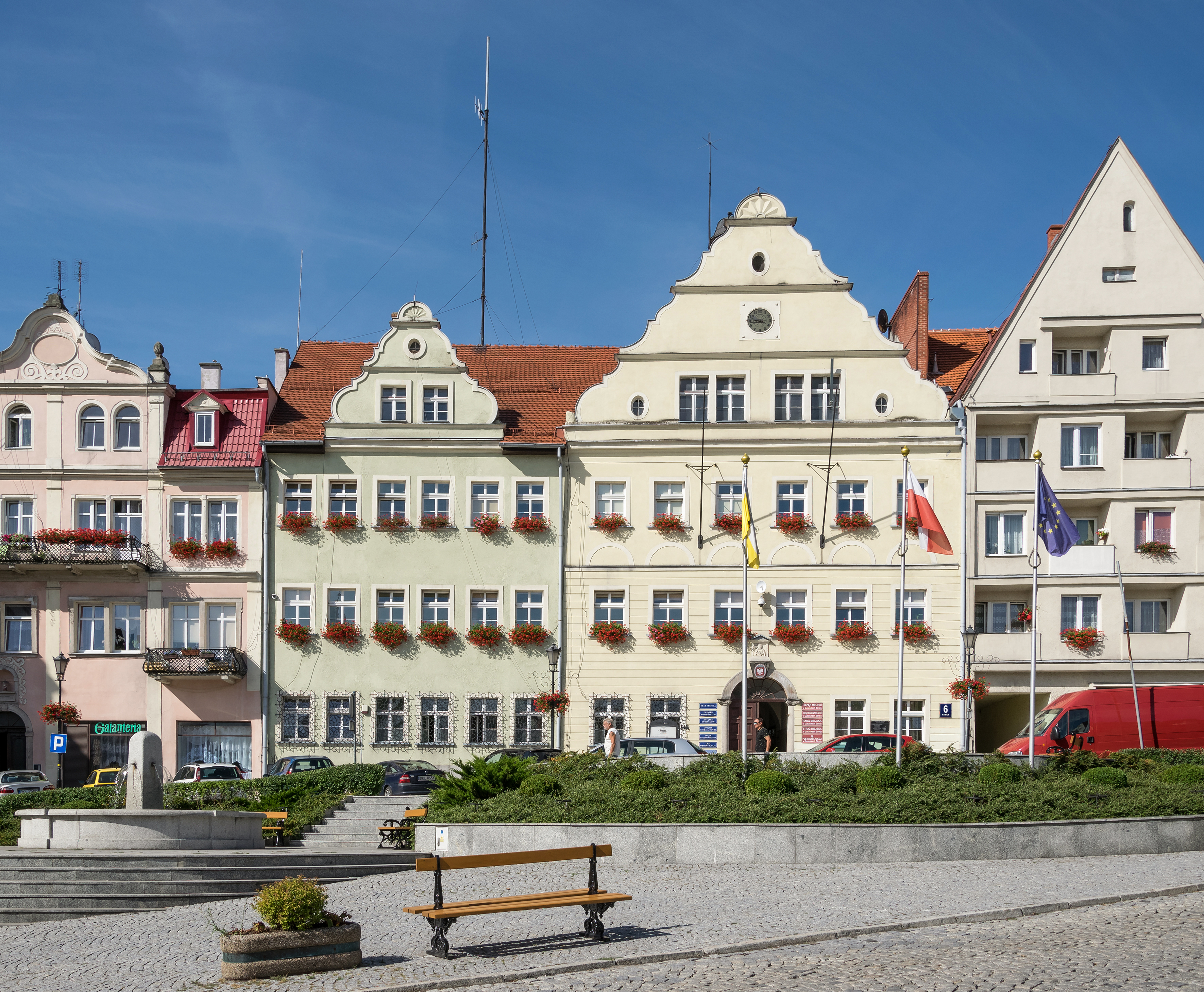 6 Market Square in Duszniki-Zdrój Wikidata has entry Q30047042 with data related to this item.